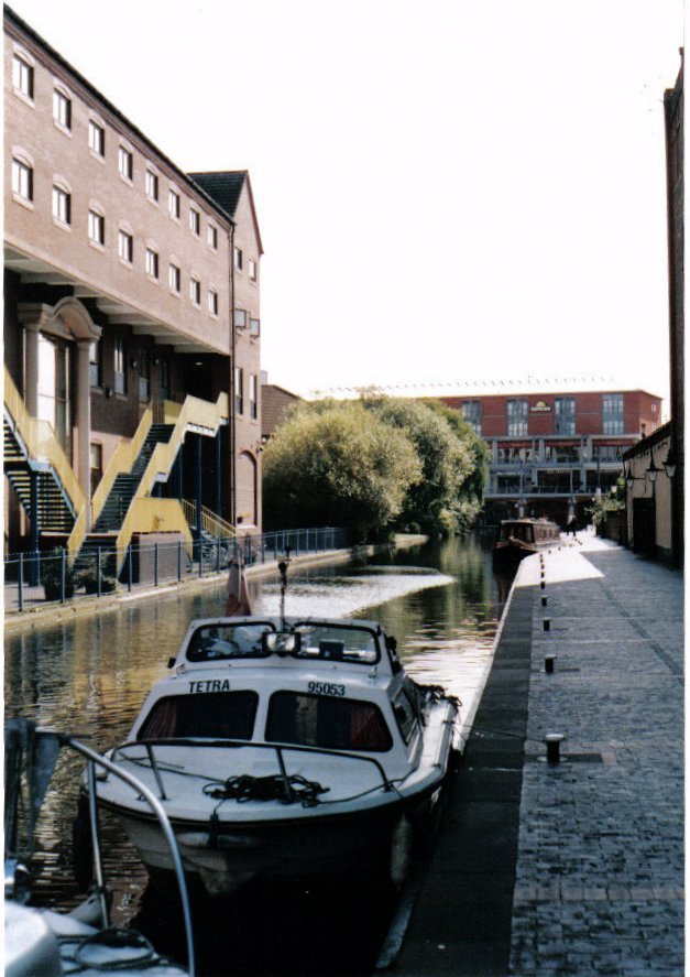 A Norman Leisure boat, bought from Shaw and Crompton, in Greater Manchester. This photo was taken by me simon hall. GDLF-tag